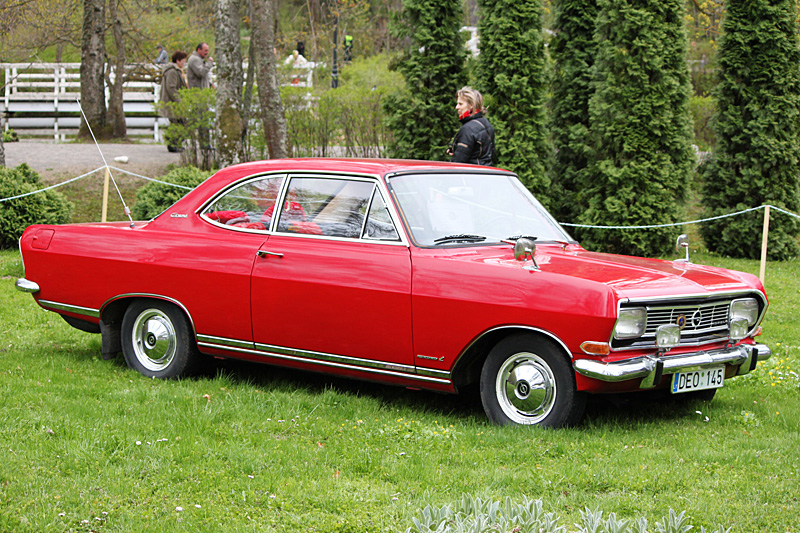 Opel Record B Coupe, 1966.